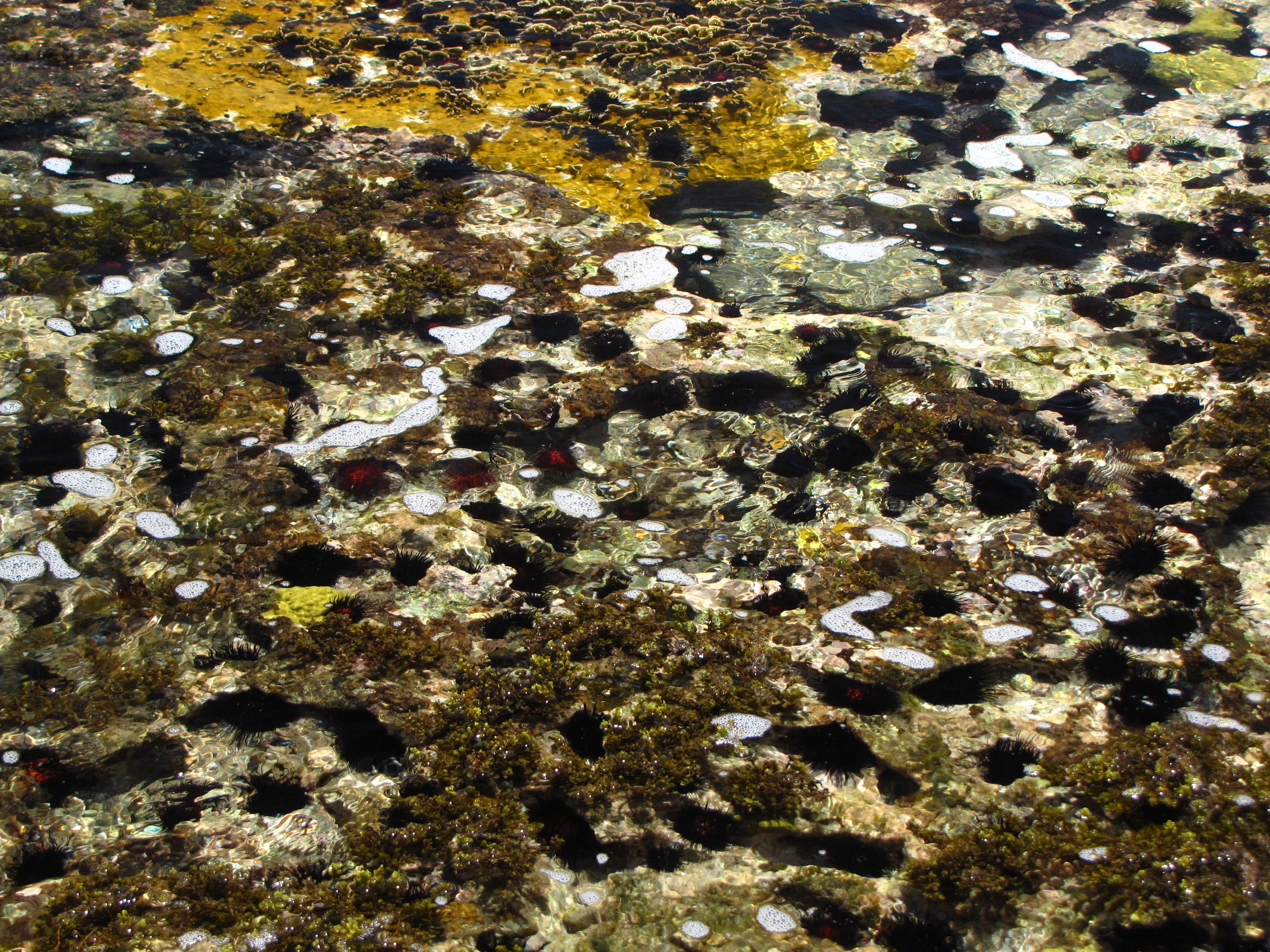 A parterre of burrowing sea urchins (Echinometra lucunter) in Venezuela (Playita, Ocumare de la Costa. Estado Aragua).